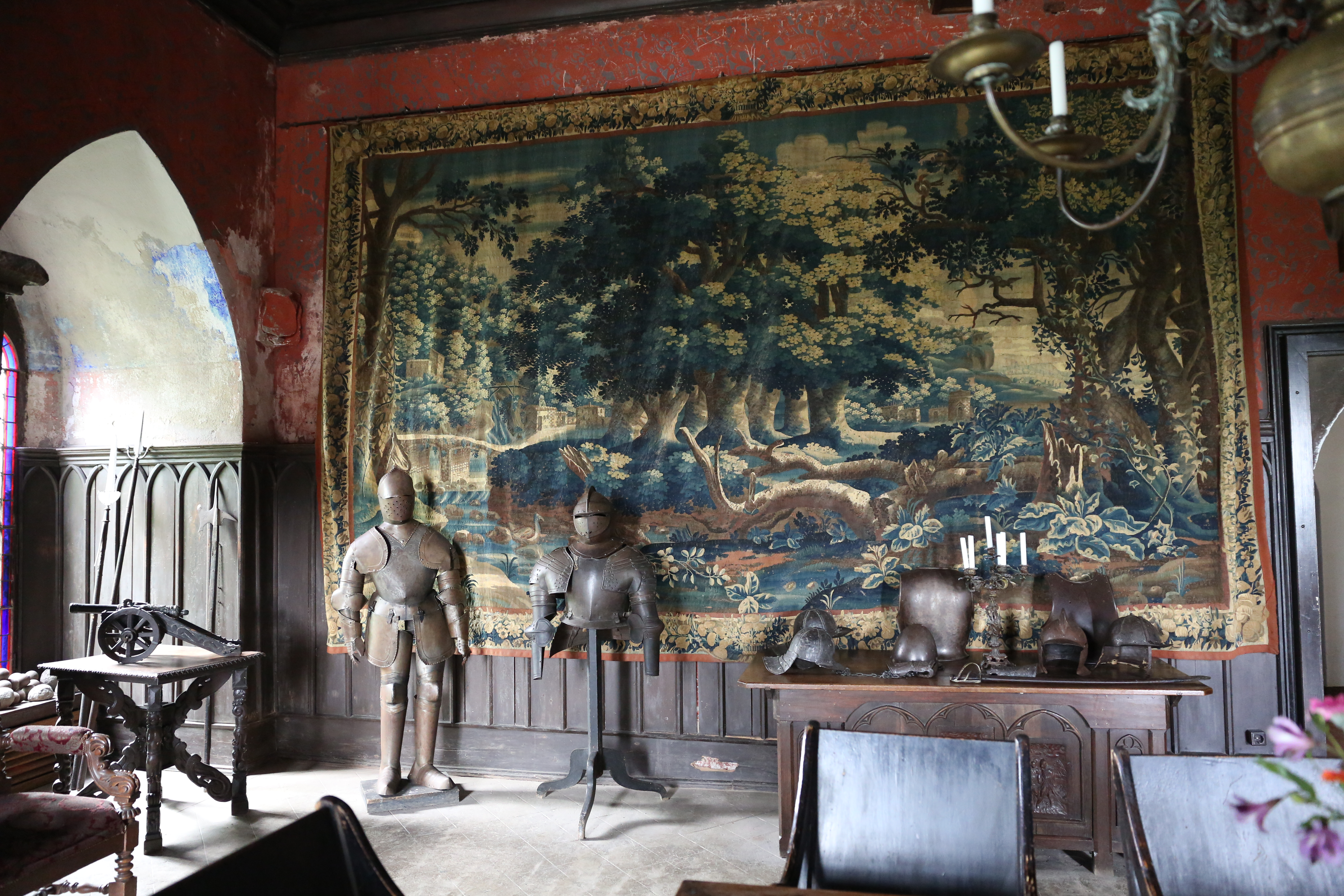 Castle Lahneck, hall of Knights, on the wall a true Gobelin.